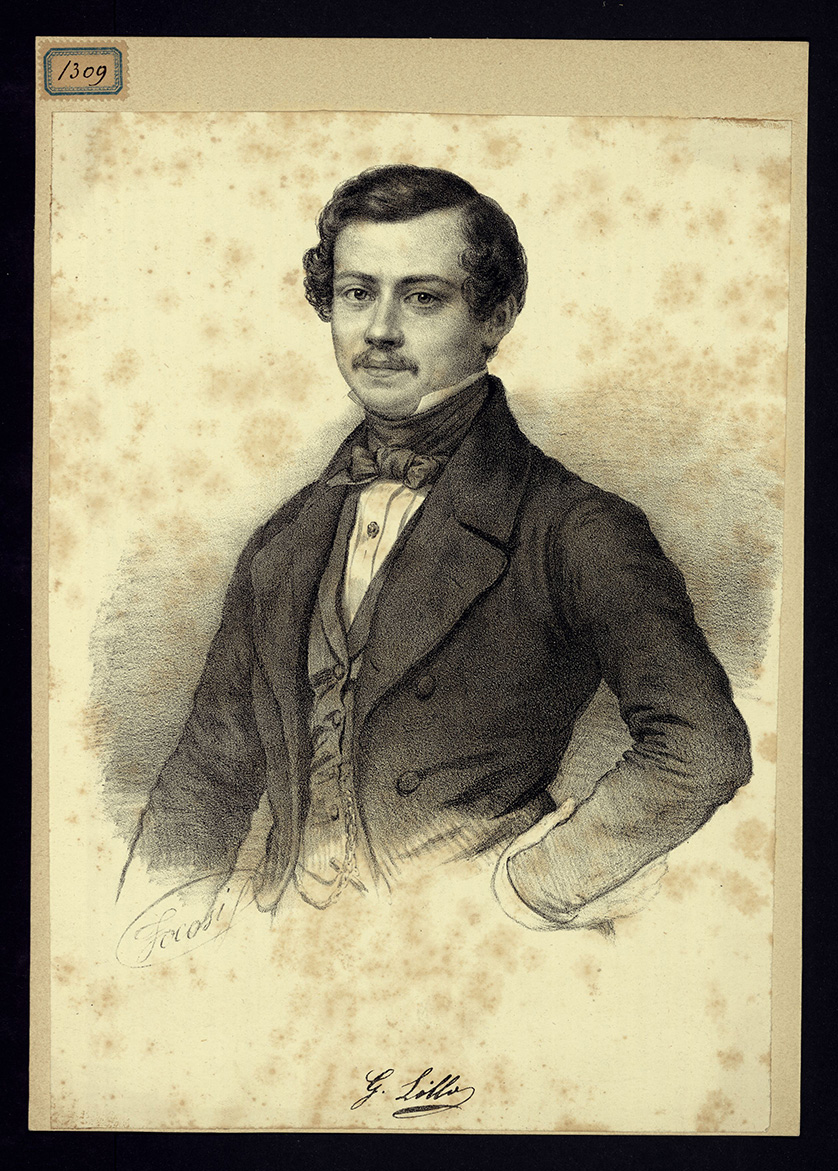 Portrait of Giuseppe Lillo, composer (1814-1863), before 1862.